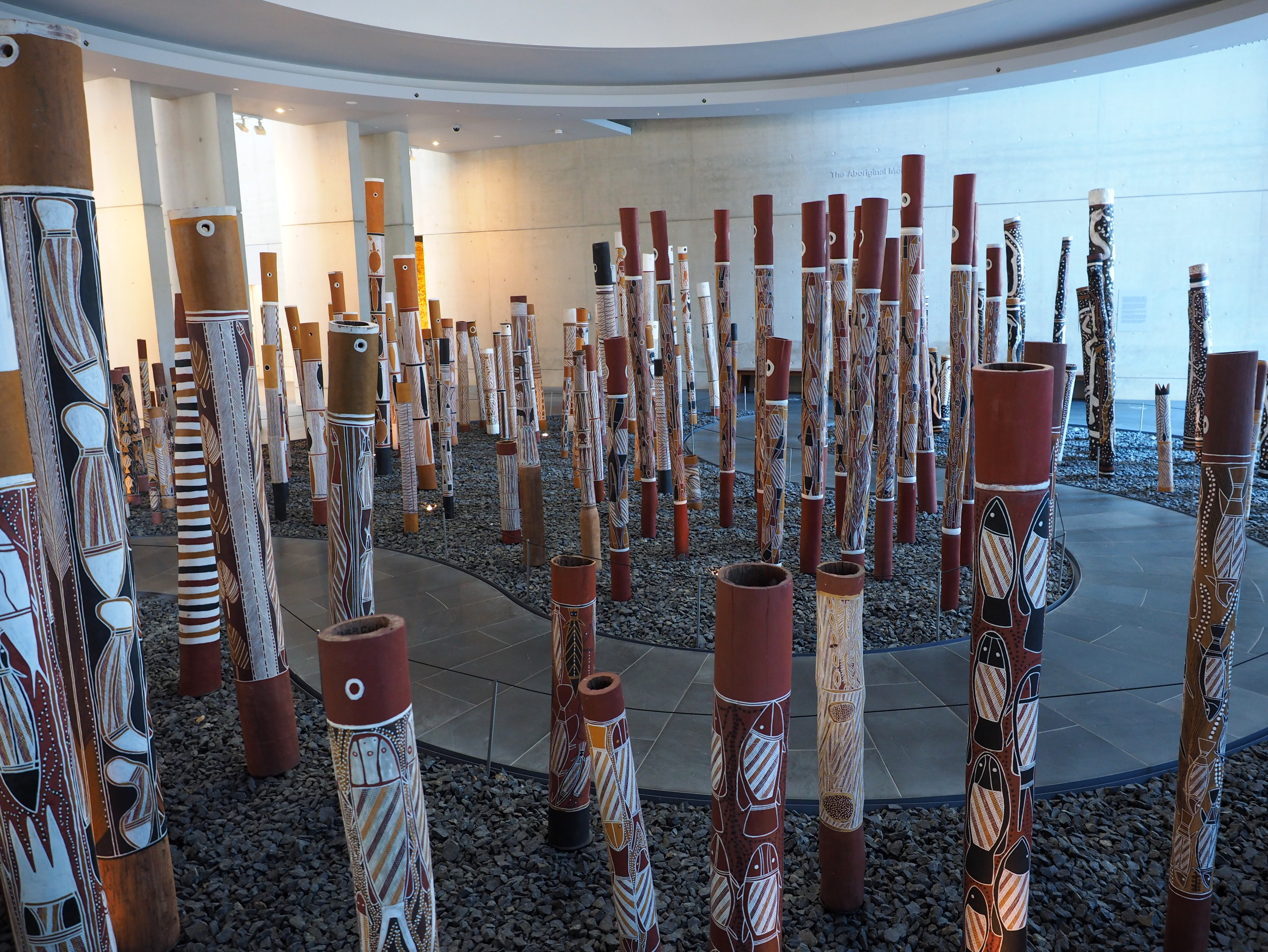 Aboriginal Memorial viewed from the foyer of the National Gallery of Australia